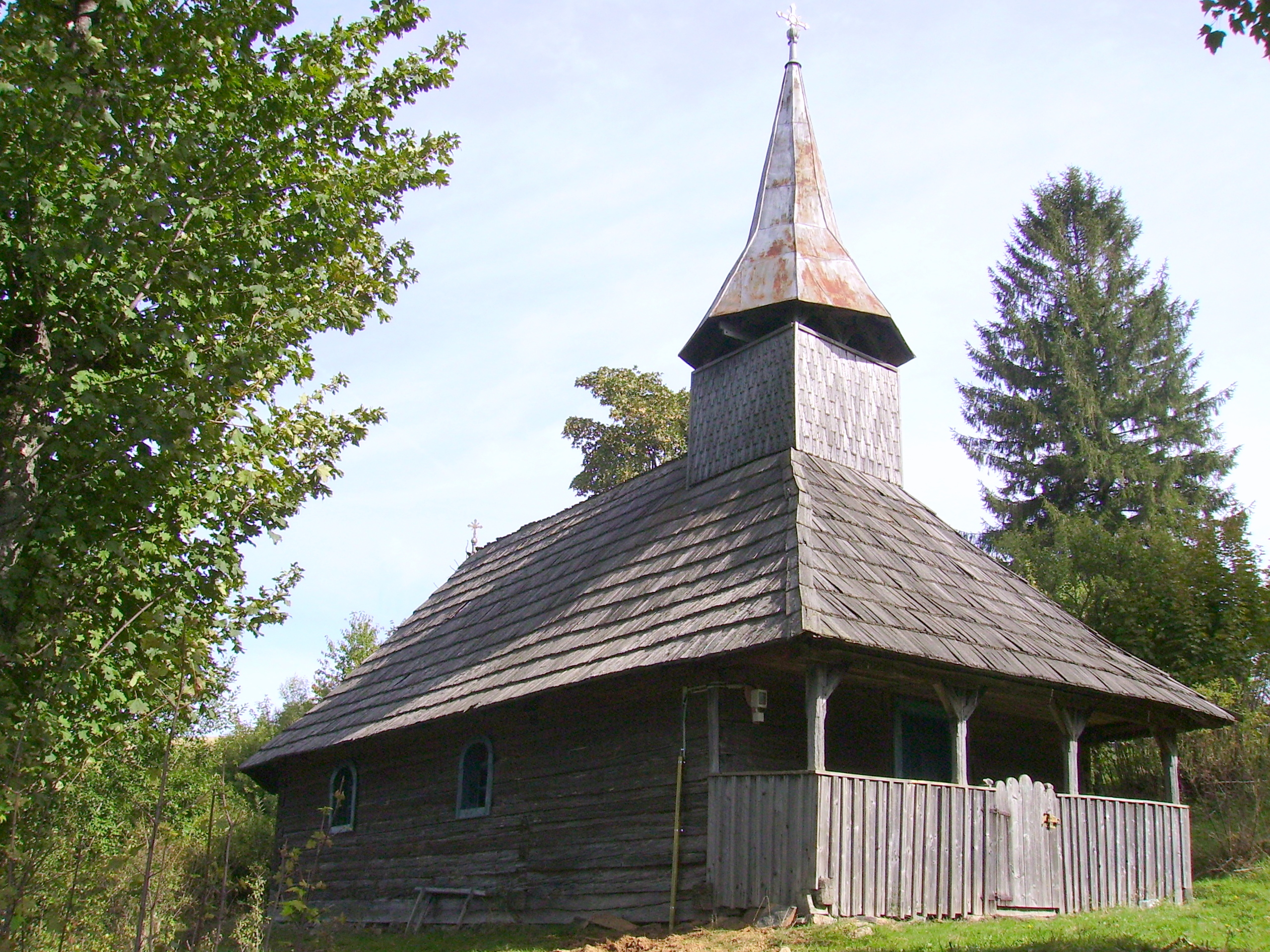 The wooden church in Merișoru de Munte, Hunedoara county, Romania